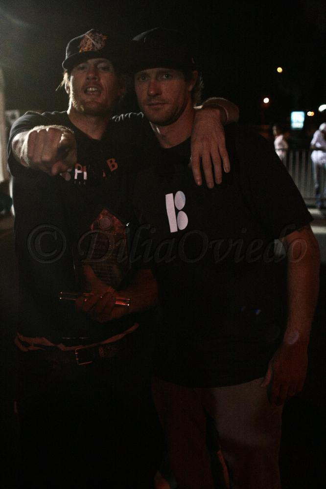 Pat Duffy & Danny Way